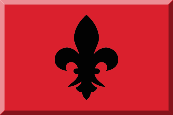 Fictional flag for Zweigen Kanazawa